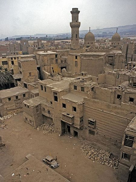 View of the western courtyard of Bayt-al-Razzaz, with the minaret of Um al-Sultan Shaaban Mosque in the background, 1997